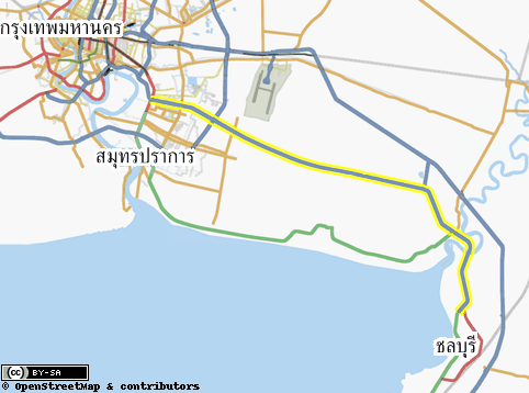 Map showing the Bang Na Expressway (yellow highlight) linking Bangkok and Chonburi This map may be incomplete, and may contain errors. Don't rely solely on it for navigation.